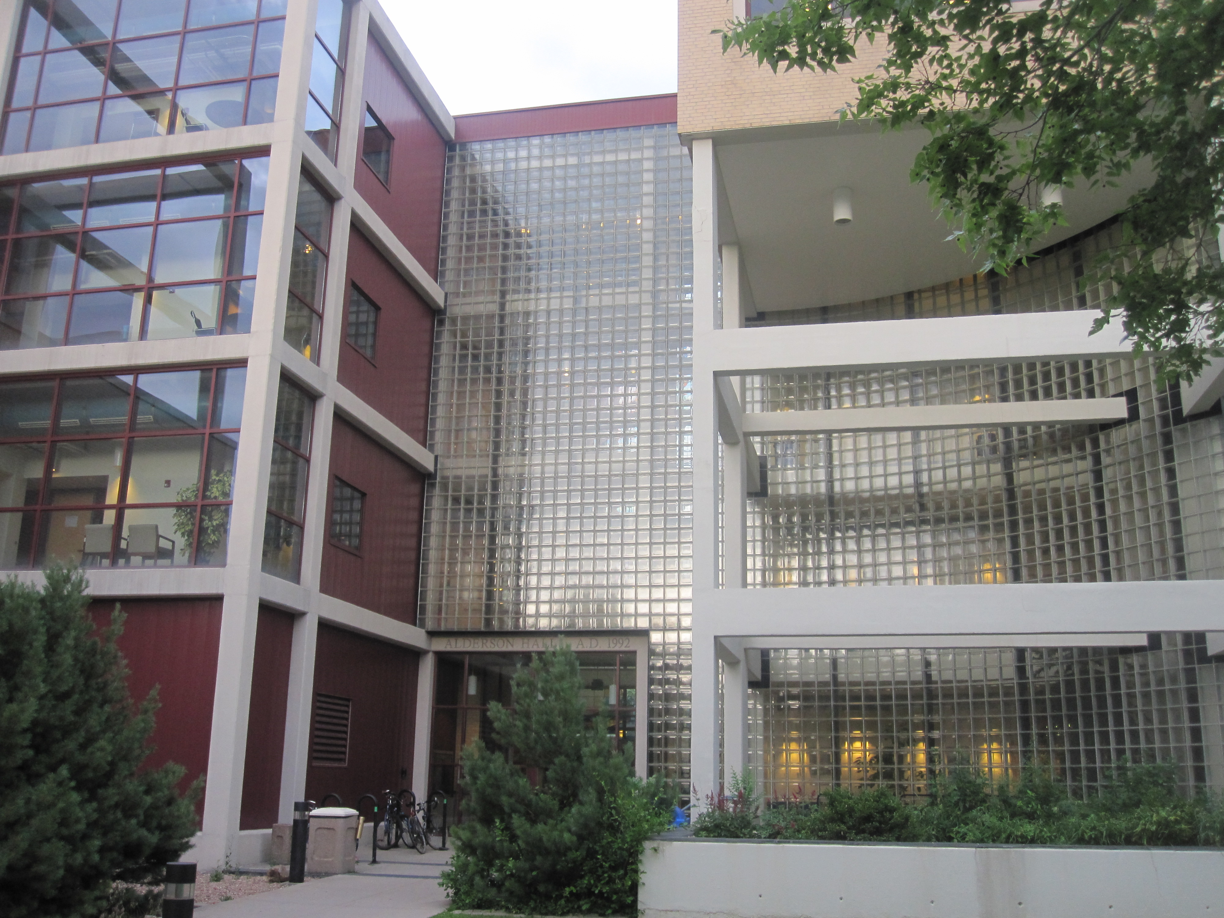 I took photo with Canon camera in Golden, CO.